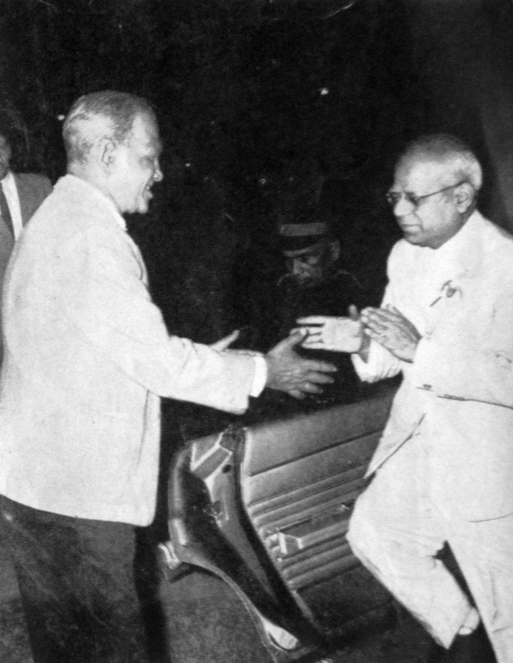 In the last event of his life,JK Seal welcoming Governor of West Bengal Shri Dharam Vir on 26th December 1968, just three weeks before his death